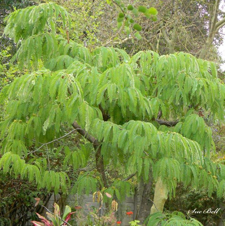 Foliage of Brachystegia boehmii growing in Harare, Zimbabwe